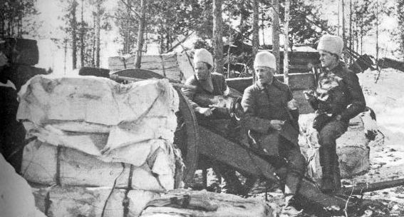 1918 Finnish Civil War White Guards artillery in Hannila, Antrea.